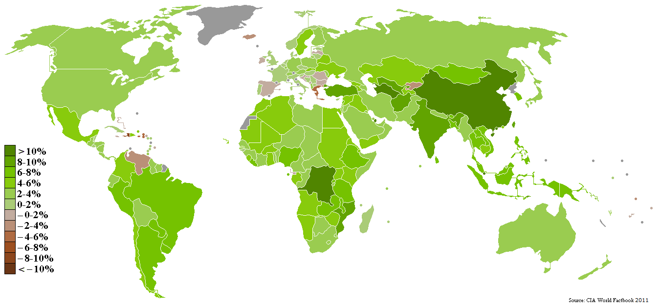 World map showing GDP real growth rates for 2010. CIA world factbook estimates[1] as of Januay 2011.